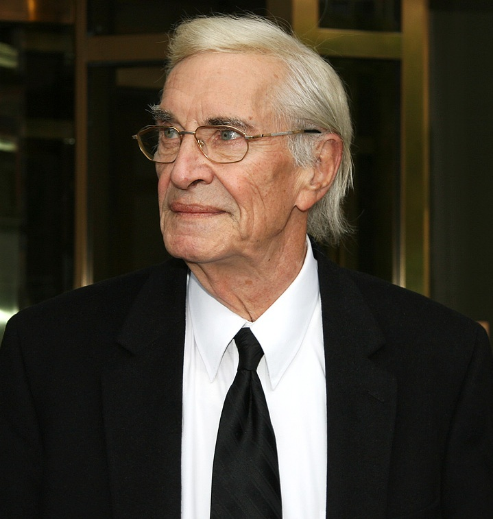 Martin Landau at the 2008 Toronto International Film Festival